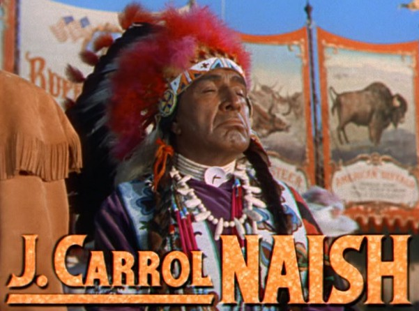 Cropped screenshot of J. Carroll Naish from the trailer for the film Annie Get Your Gun (1950).